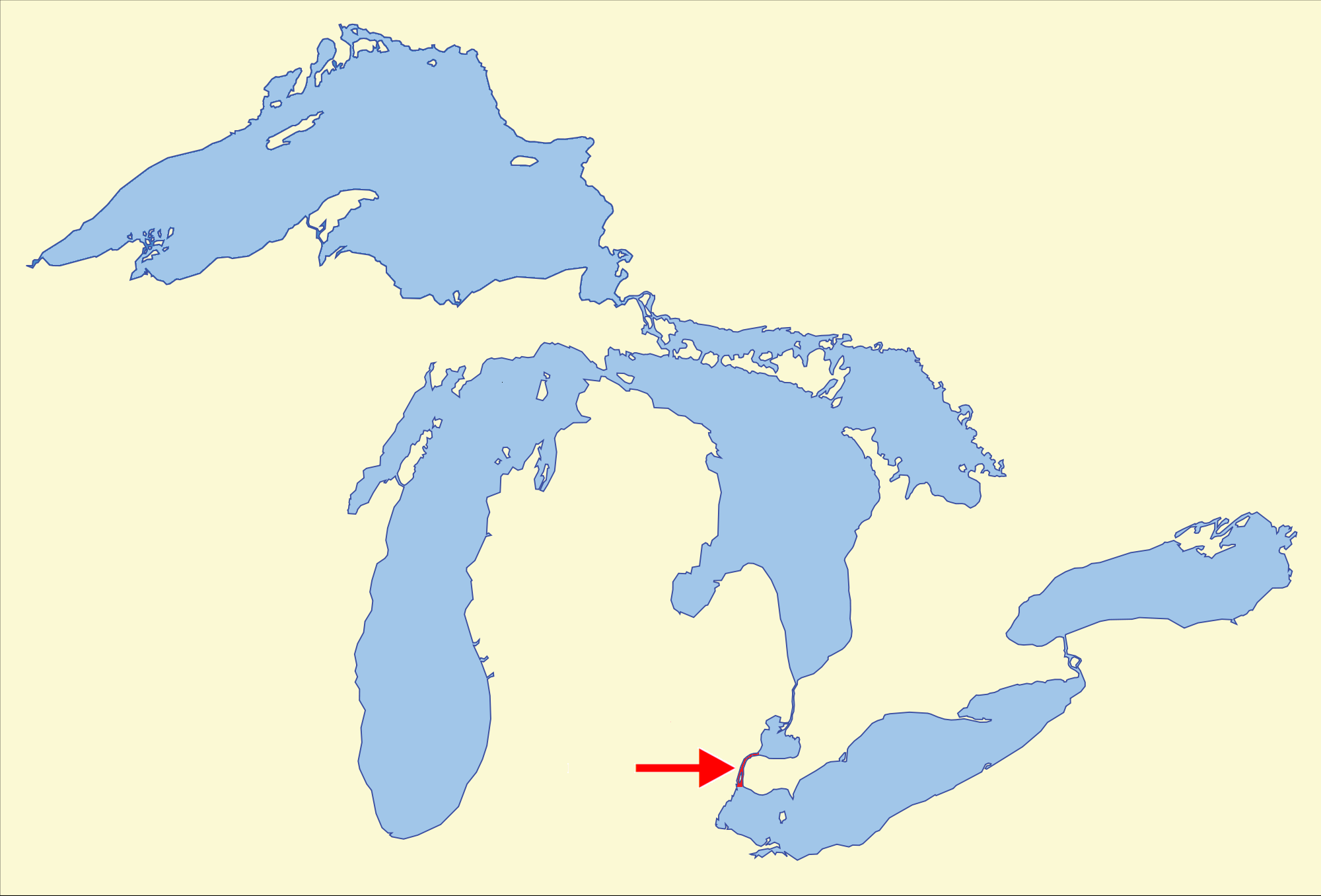 Modified version of the Great Lakes map originally uploaded by User:Phizzy to illustrate the location of the Detroit River in the Great Lakes system